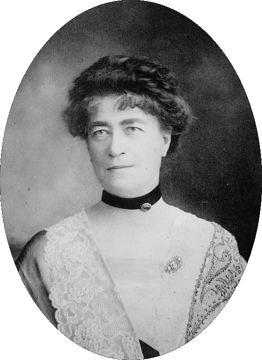 Mary Stewart Cutting (LOC) Bain News Service,, publisher. Mary Stewart Cutting [between ca. 1910 and ca. 1915] 1 negative : glass ; 5 x 7 in. or smaller. Notes: Title from unverified data provided by the Bain News Service on the negatives or caption cards. Forms part of: George Grantham Bain Collection (Library of Congress). Format: Glass negatives. Repository: Library of Congress, Prints and Photographs Division, Washington, D.C. 20540 USA, General information about the Bain Collection is available at Persistent URL: Call Number: LC-B2- 3053-7